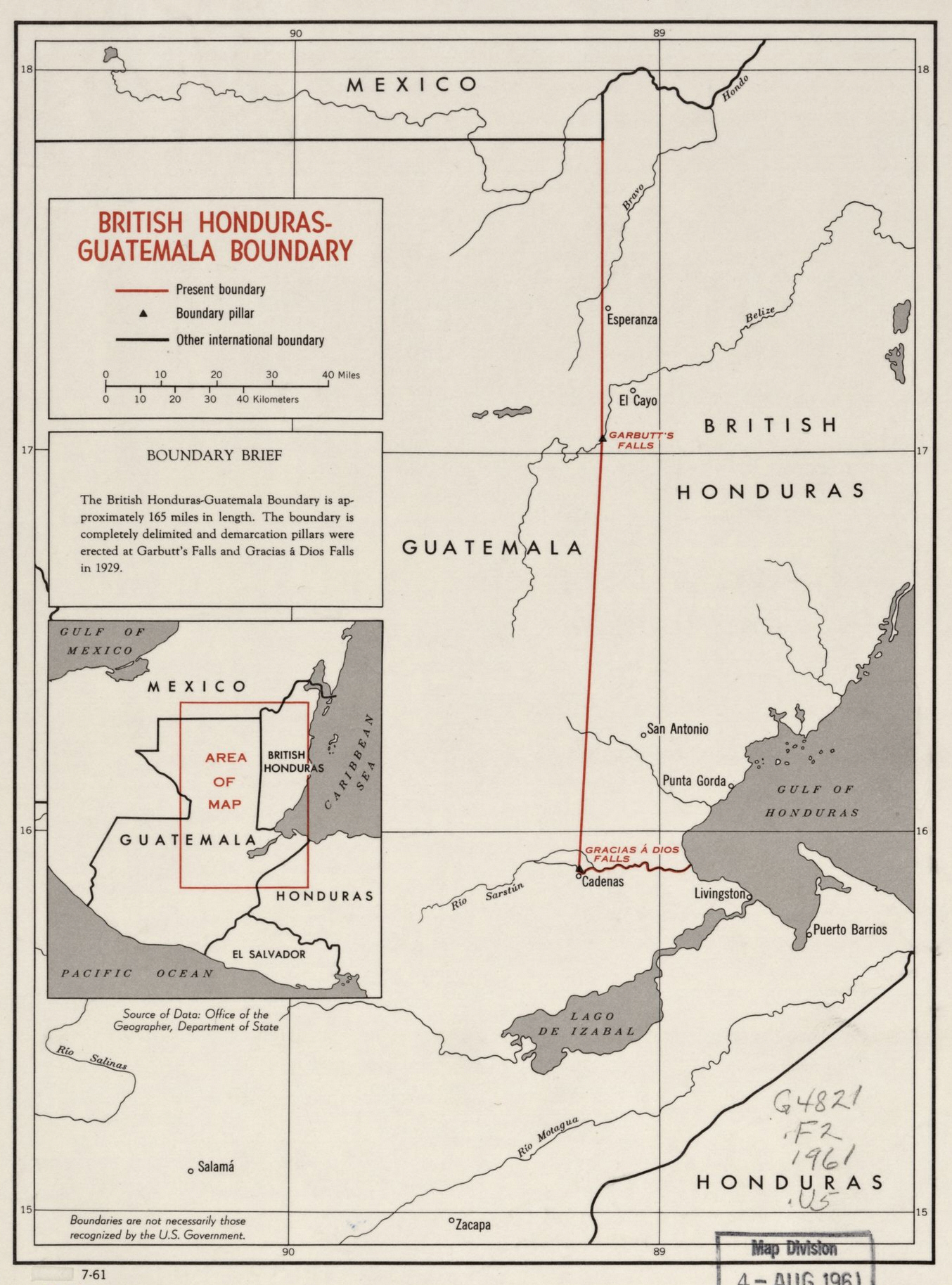 1961 British Honduras Boundary